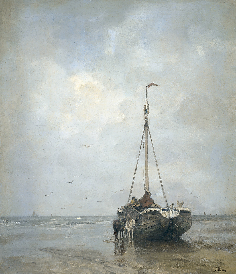 A bluff-bowed fishing boat on the beach at Scheveningen. Two horses stand beside the boat. Gulls are flying in the air.